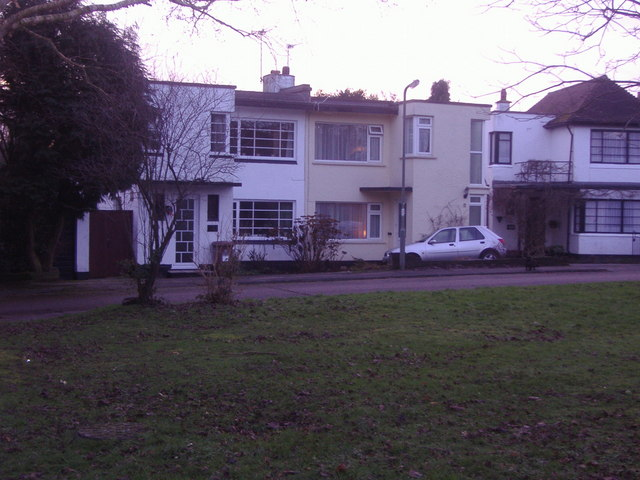 Modernist housing. Ballards Green, Burgh Heath